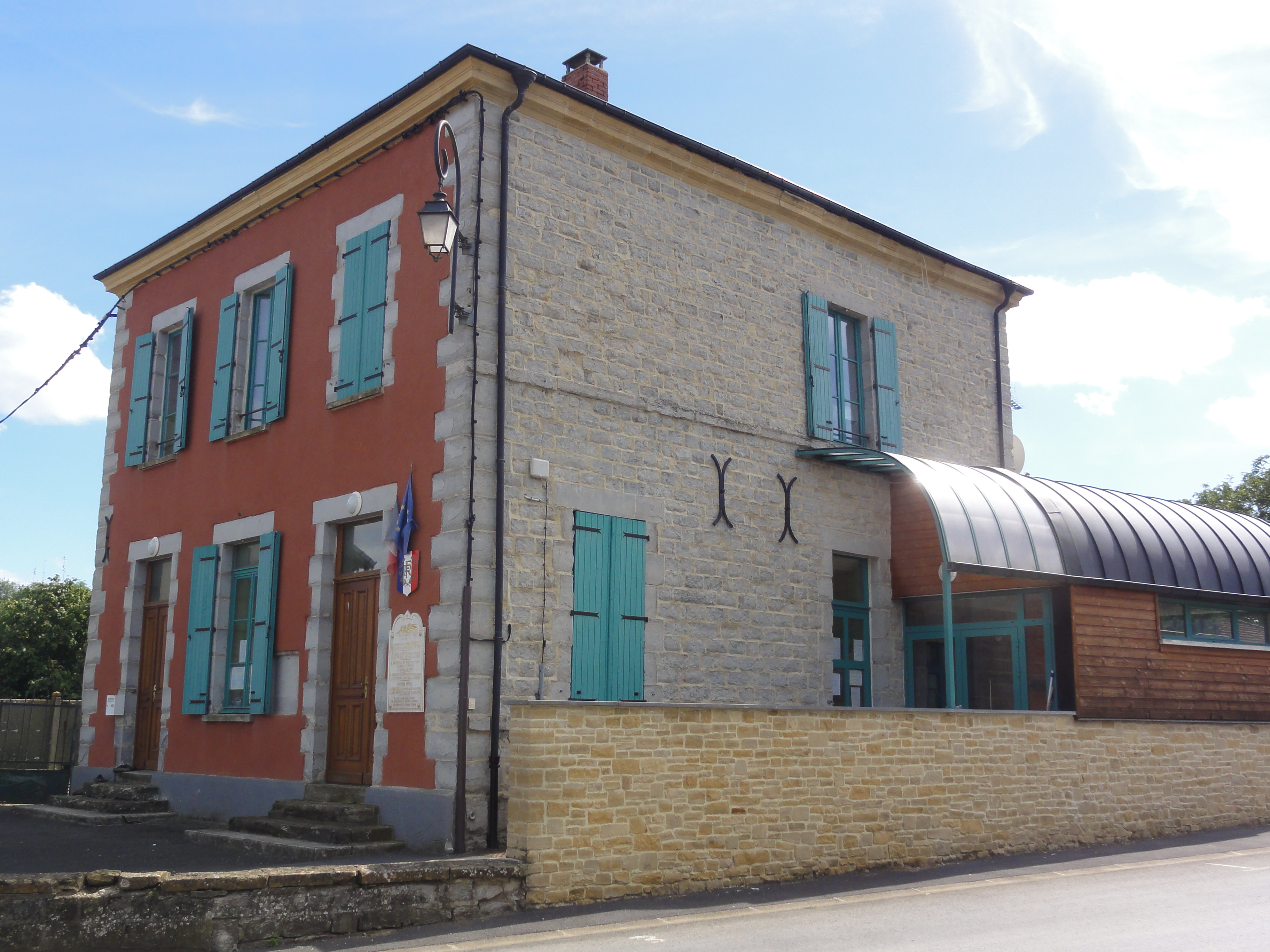 Laval-Morency (Ardennes) mairie